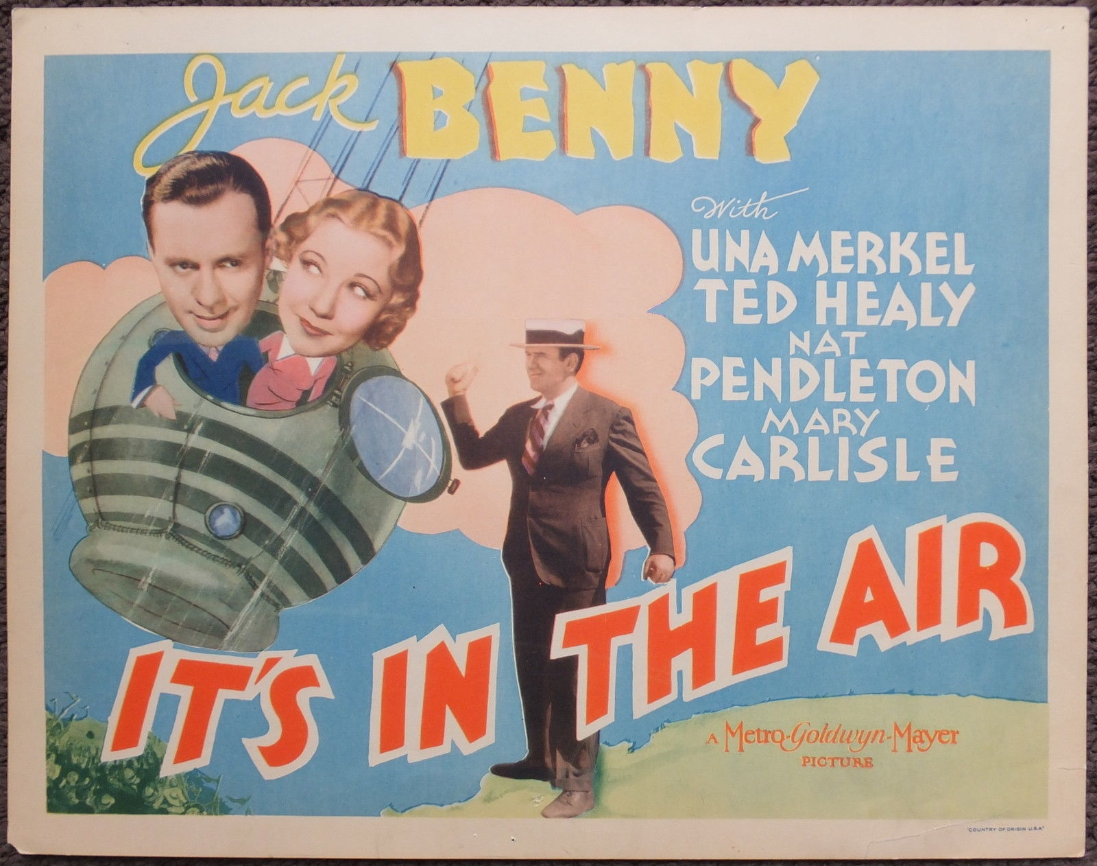 Lobby card for the 1935 film It's in the Air. The item has no copyright markings on it as can be seen in the links above. At bottom right is Country of origin USA.